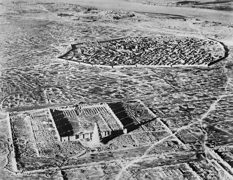 Photography Town of Samarra, 65 miles north-west by north of Baghdad on the left bank of the River Tigris. Air photograph.